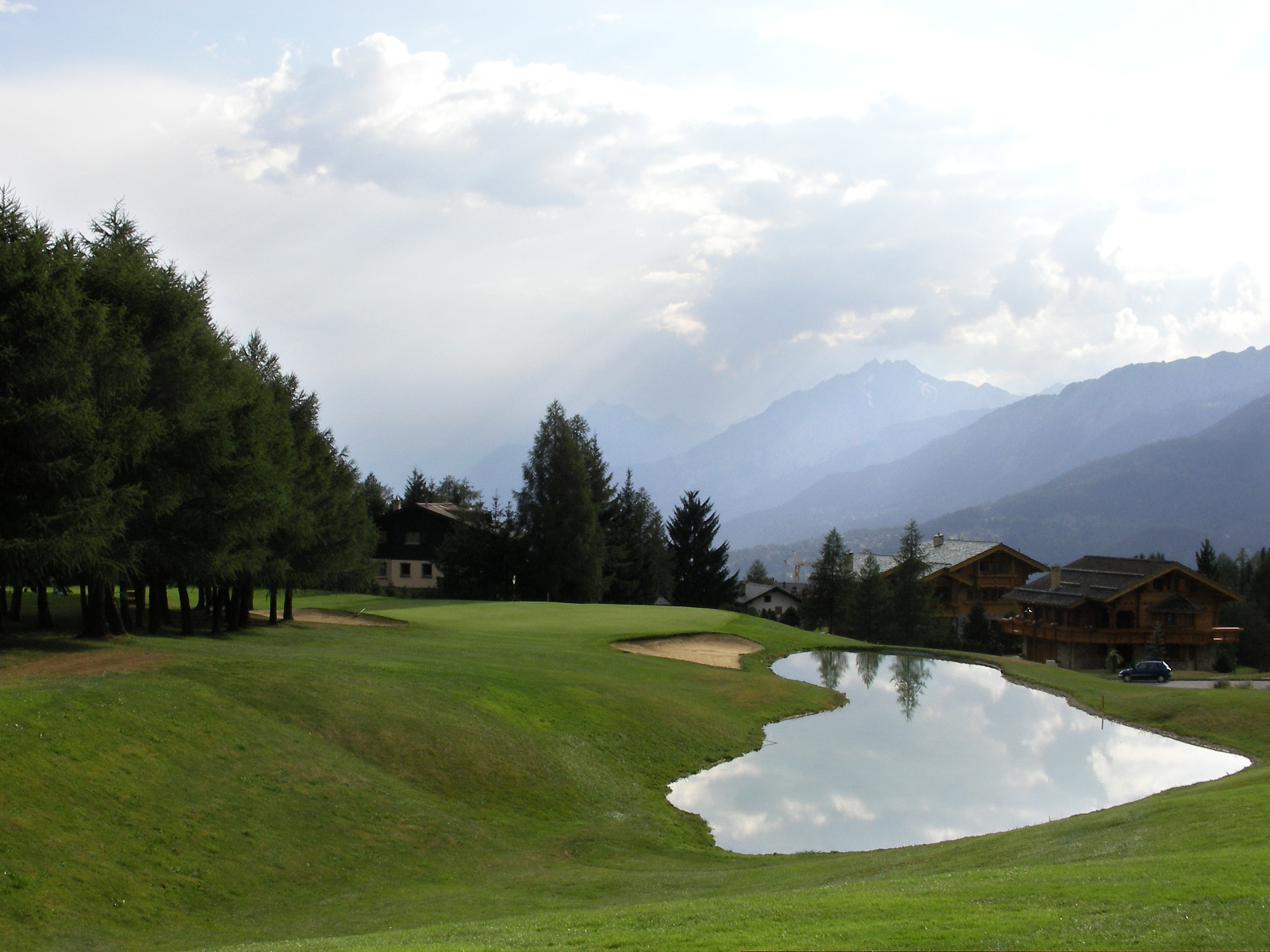 14th Green, Severiano Ballesteros Course, Golf-Club Crans-sur-Sierre, Switzerland